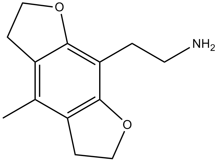 Structure of Ψ-2C-D-FLY